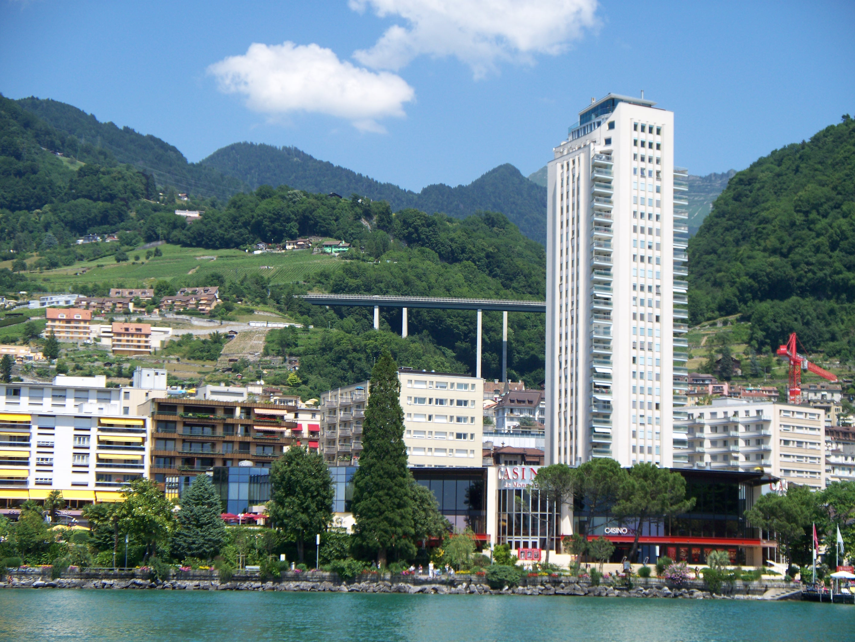 Picture taken from a boat on Lake Geneva.